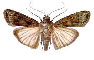 Agrotis ipsilon Phylum ARTHROPODA Class HEXAPODA Order Lepidoptera Family Noctuidae